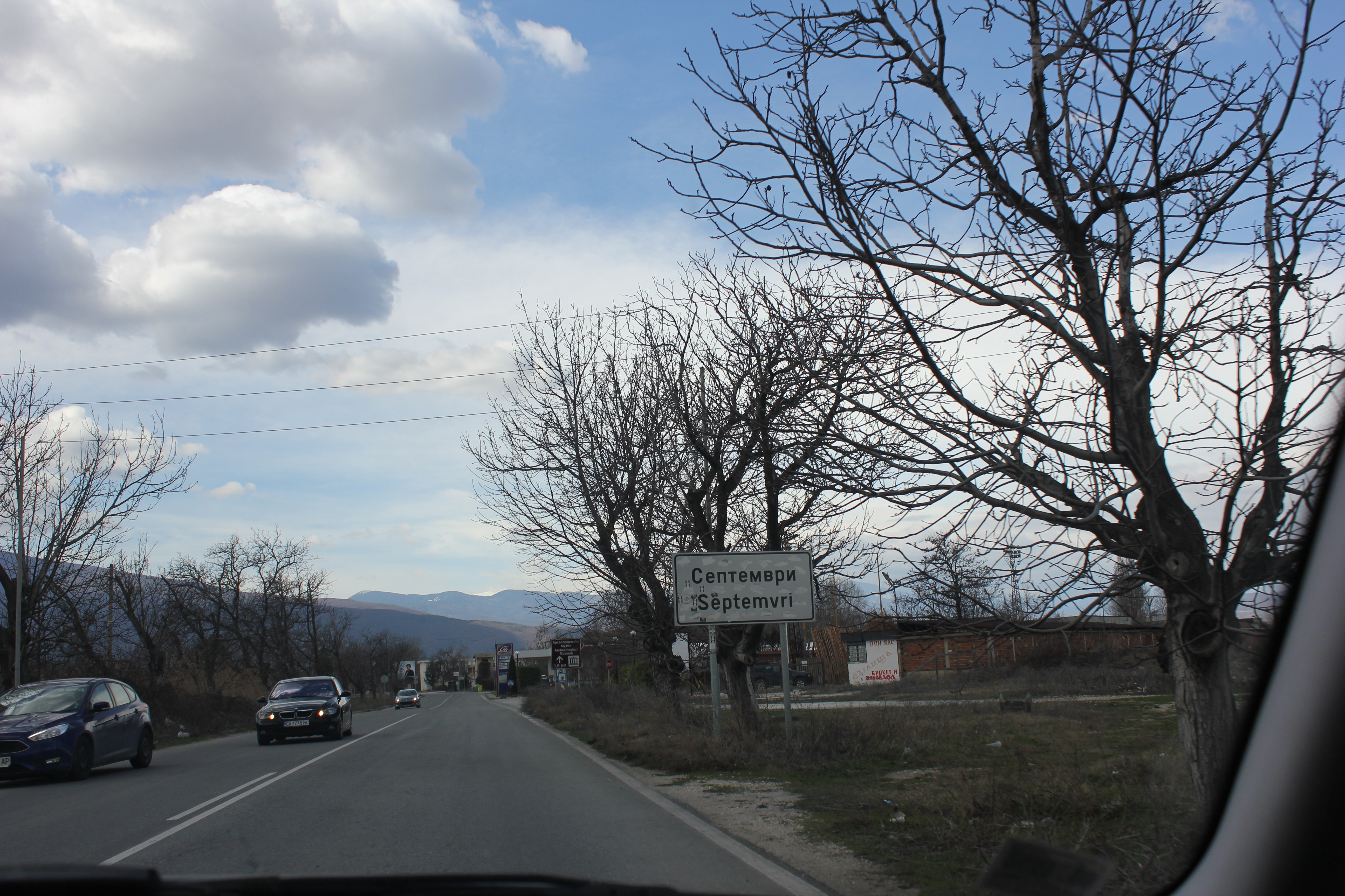 Septemvri Entrance Road